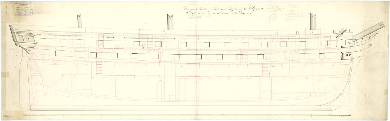 Elephant (1786) Scale: 1:48. Plan showing the inboard profile for Elephant (1786), a 74-gun Third Rate, two-decker, as cut down (razeed) to a 58-gun Fourth Rate Frigate at Portsmouth Dockyard in 1817-8. Signed by John Fincham [Master Shipwright, Portsmouth Dockyard, 1844-1852]. ELEPHANT 1786